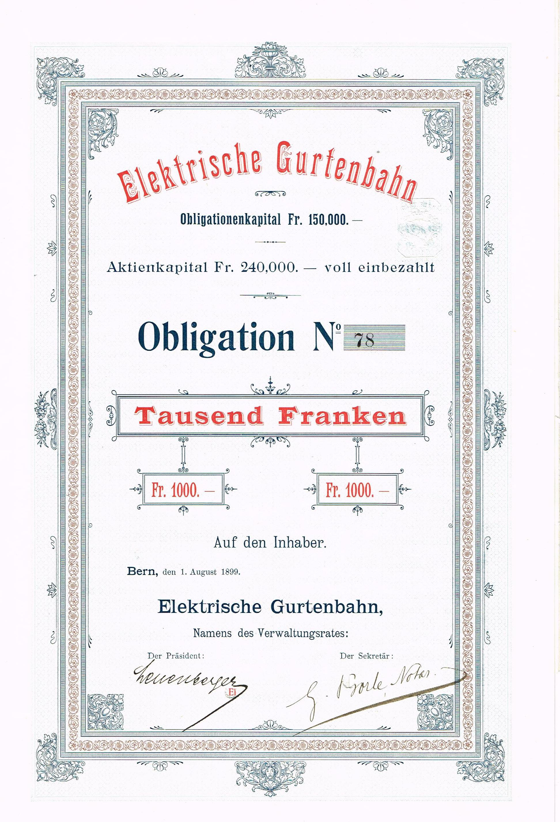 Bond of the Elektrische Gurtenbahn, issued 1. August 1899